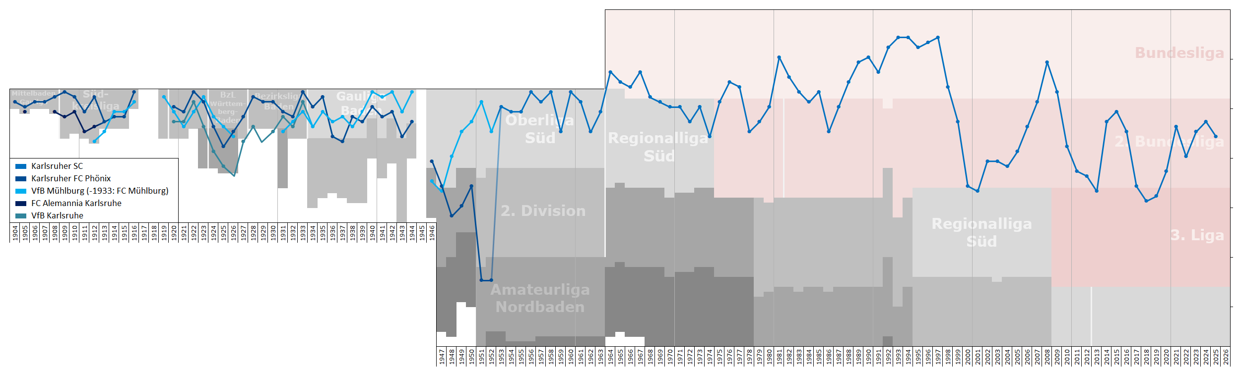 Chart of end-season table positions of Karlsruher SC in the football league system of Germany. Data source: RSSSF, wikipedia, f-archiv.de, fussball.de